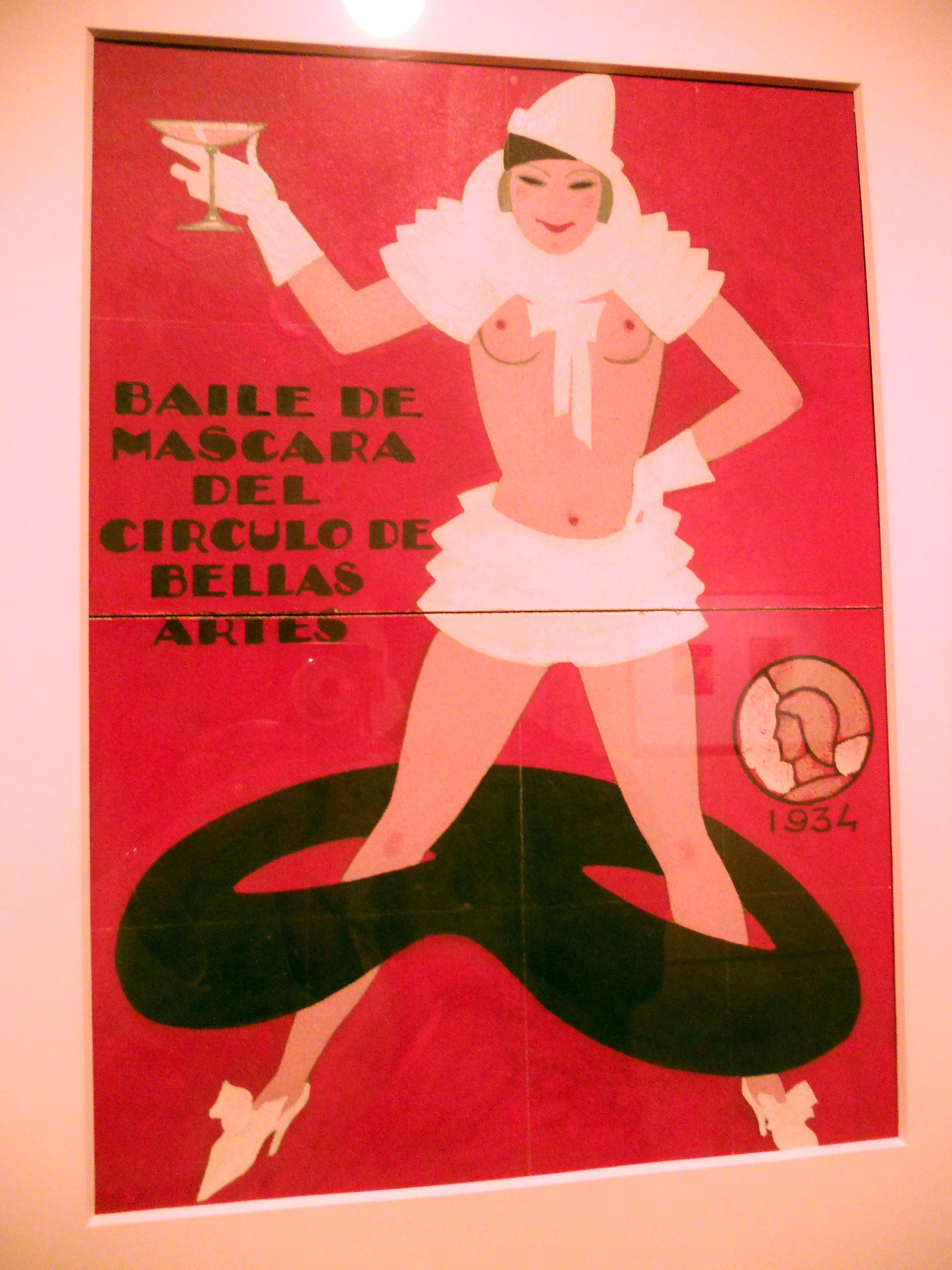 Rafael de Penagos (1889-1954), Spanish painter and illustrator. Photos of the work of Rafael de Penagos from the exhibition of his drawings called “Los años del Charlestón.” Colecciones MAPFRE. La Laguna, Tenerife. May 8, 2014-July 11, 2014. Fotos de las obras de Rafael de Penagos de la exhibición de sus dibujos llamada “Los años del Charlestón.” Colecciones MAPFRE. La Laguna, Tenerife. Del 8 de mayo al 11 de julio de 2014.